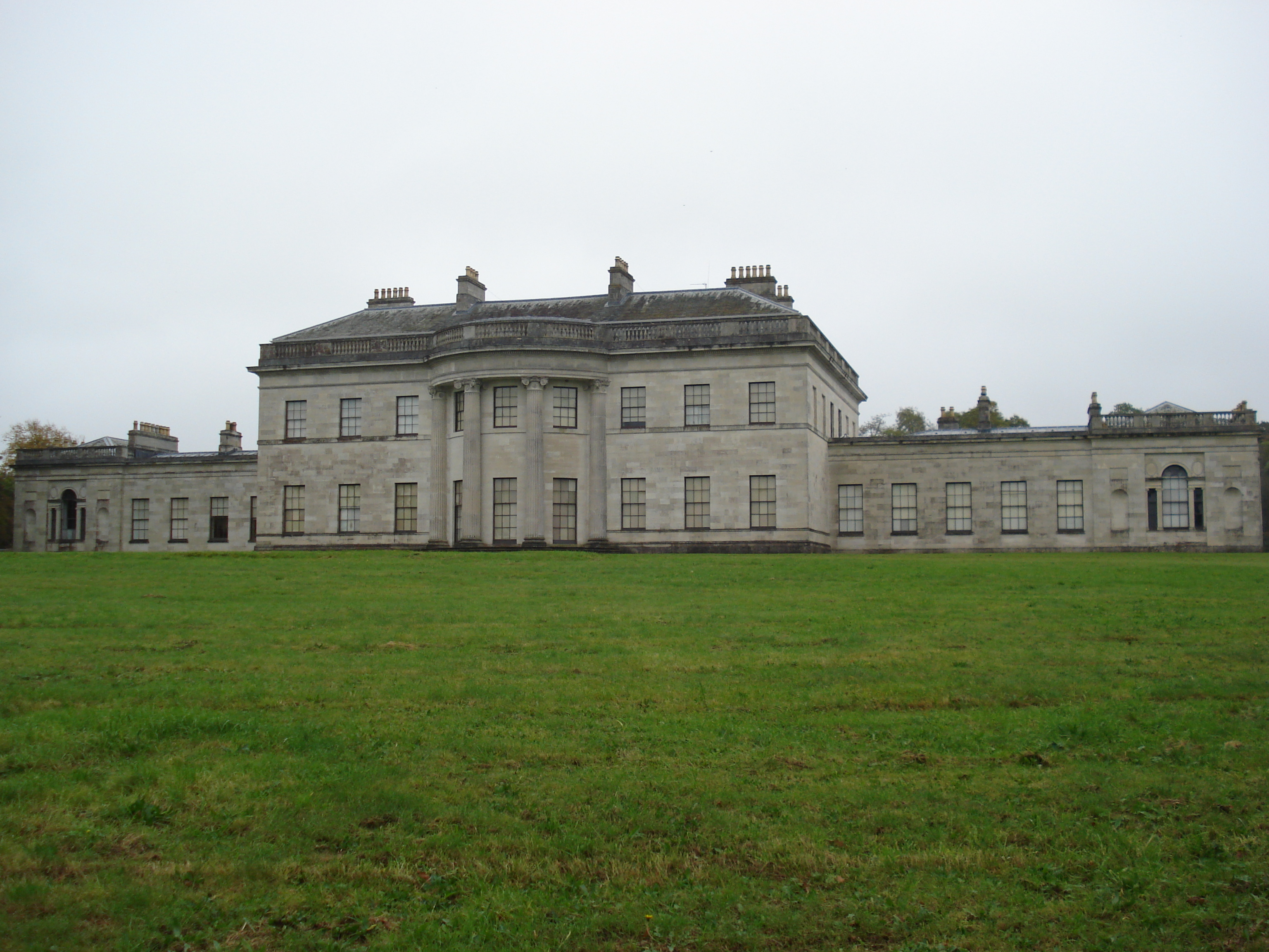 Castle Coole, Enniskillen, view from the back.